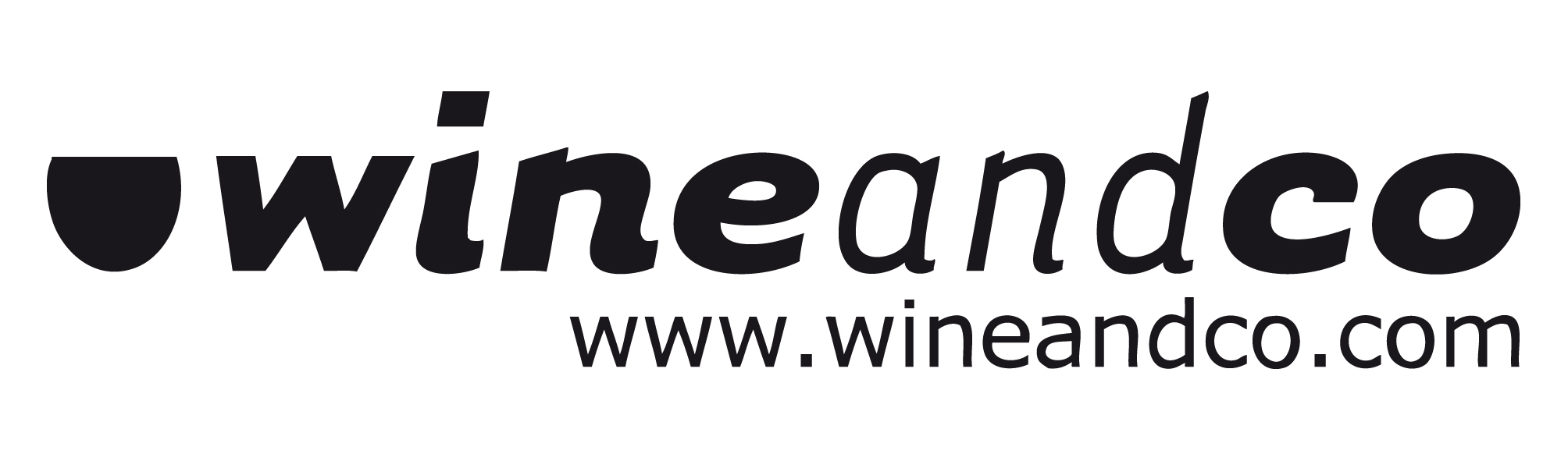 Logo Wine&Co